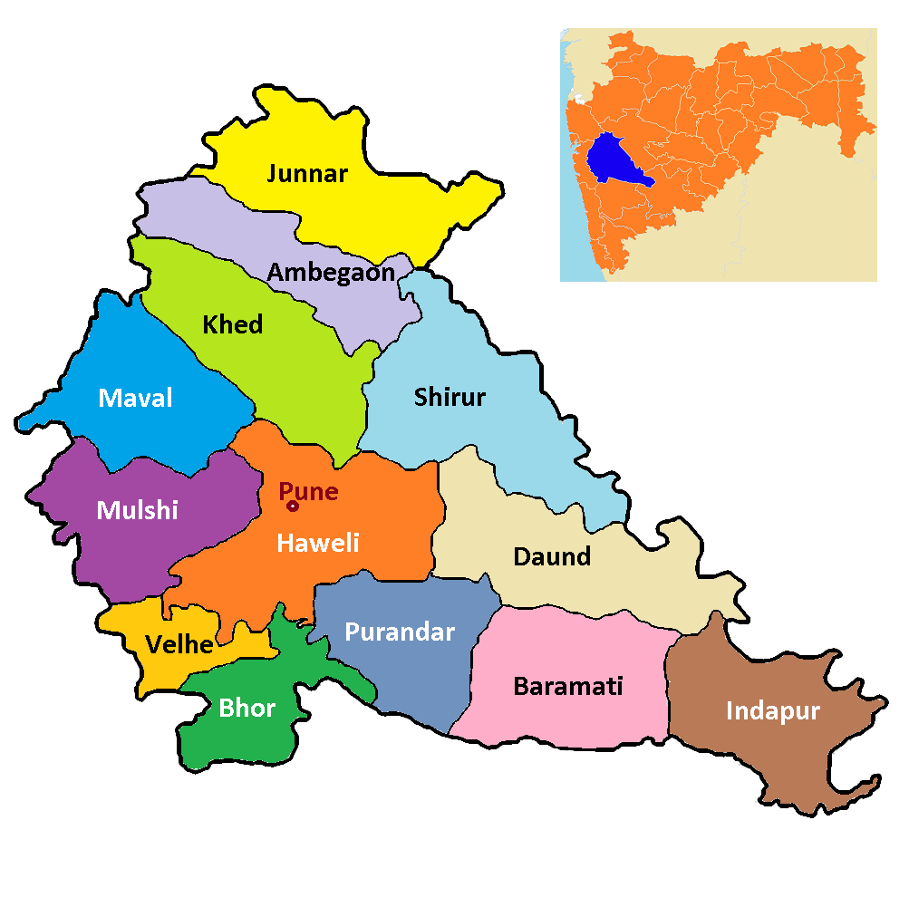 Tehsils in Pune district